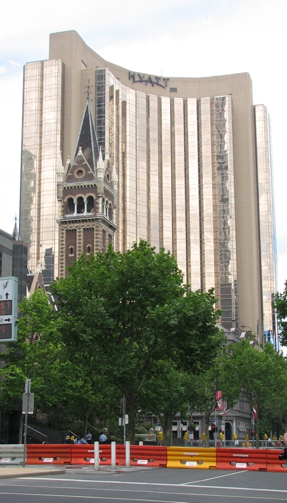 A police roadblock at the corner of Russell and Little Collins Streets in Melbourne, part of the security measures for the Meeting of G-20 Finance Ministers and Central Bank Governors held in Melbourne, Australia in November 2006 at the Grand Hyatt. Photograph taken by Melburnian on Sunday November 19, 2006.